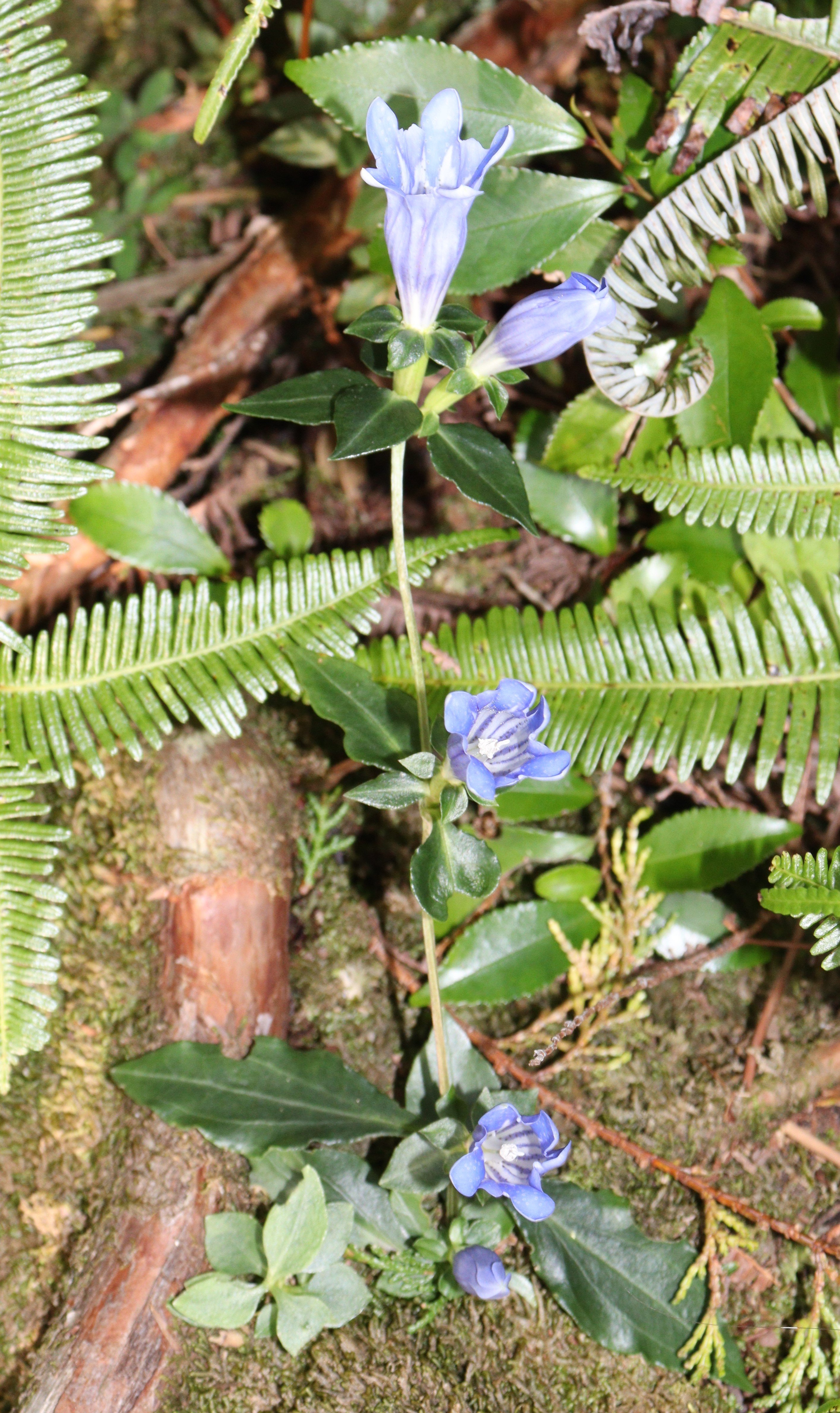 Gentiana sikokiana in Mount Tengura, Kihoku, Mie Prefecture, Japan.